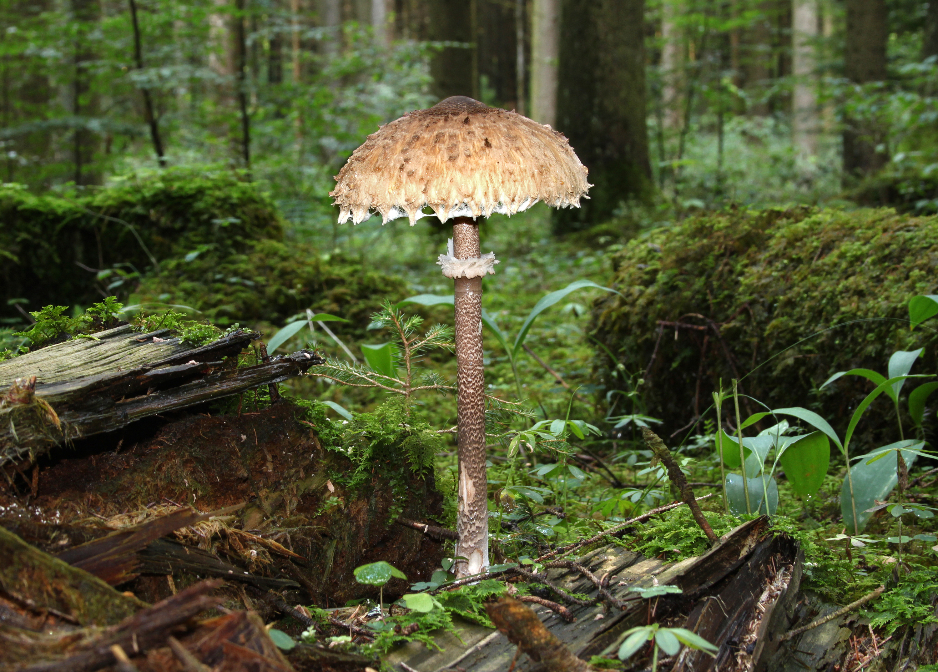 Parasol mushroom, Macrolepiota procera, Family: Agaricaceae, Location: Southern Germany, Ulm, Eggingen.